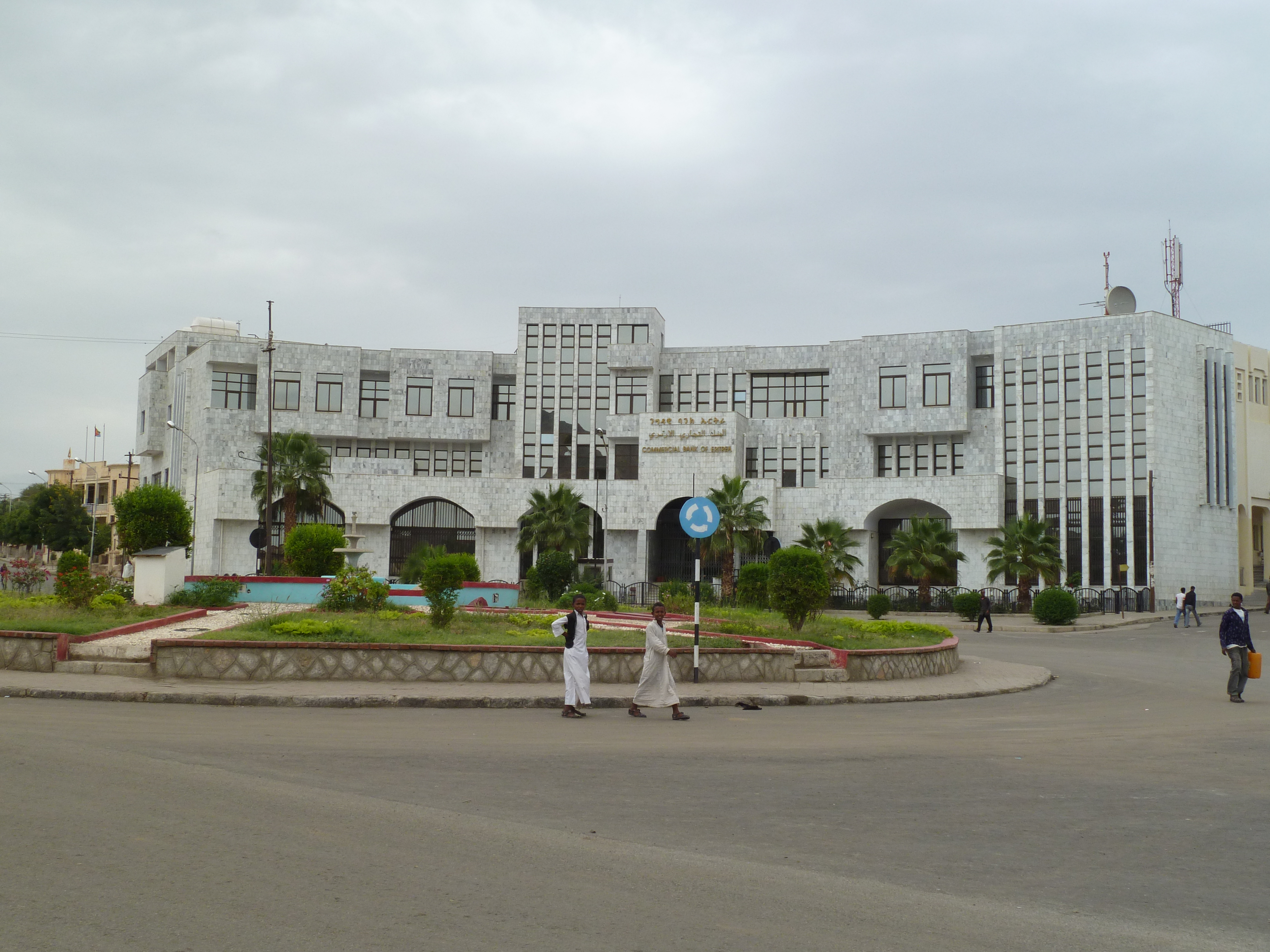 Commercial Bank of Eritrea, Keren branch